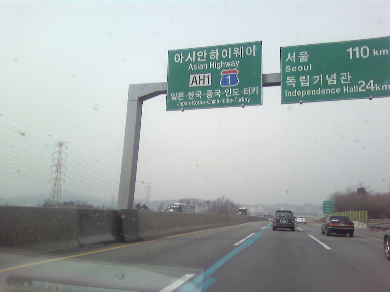 Asian Highway No.1 Gyongbu Expressway